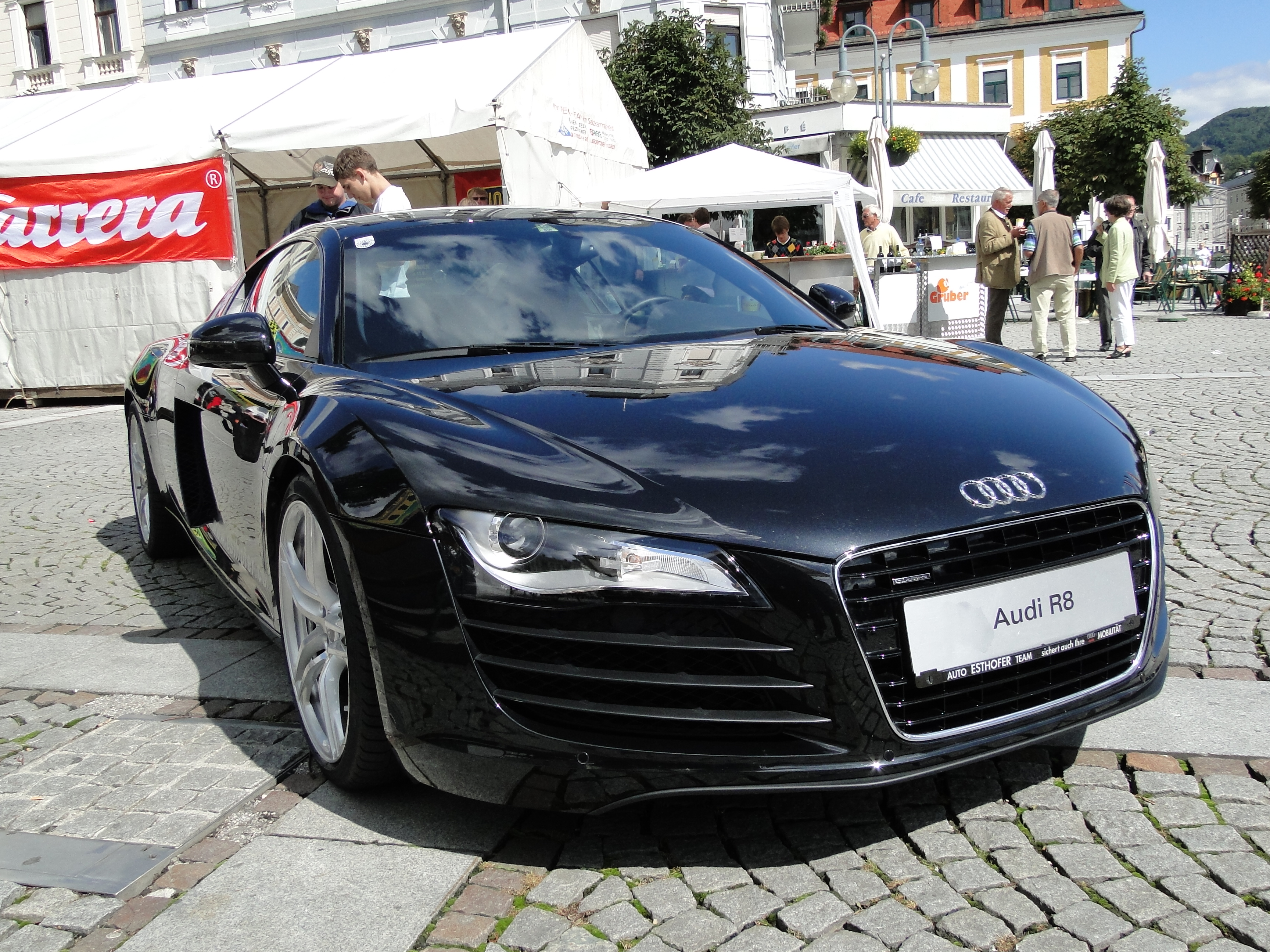 A black Audi R8